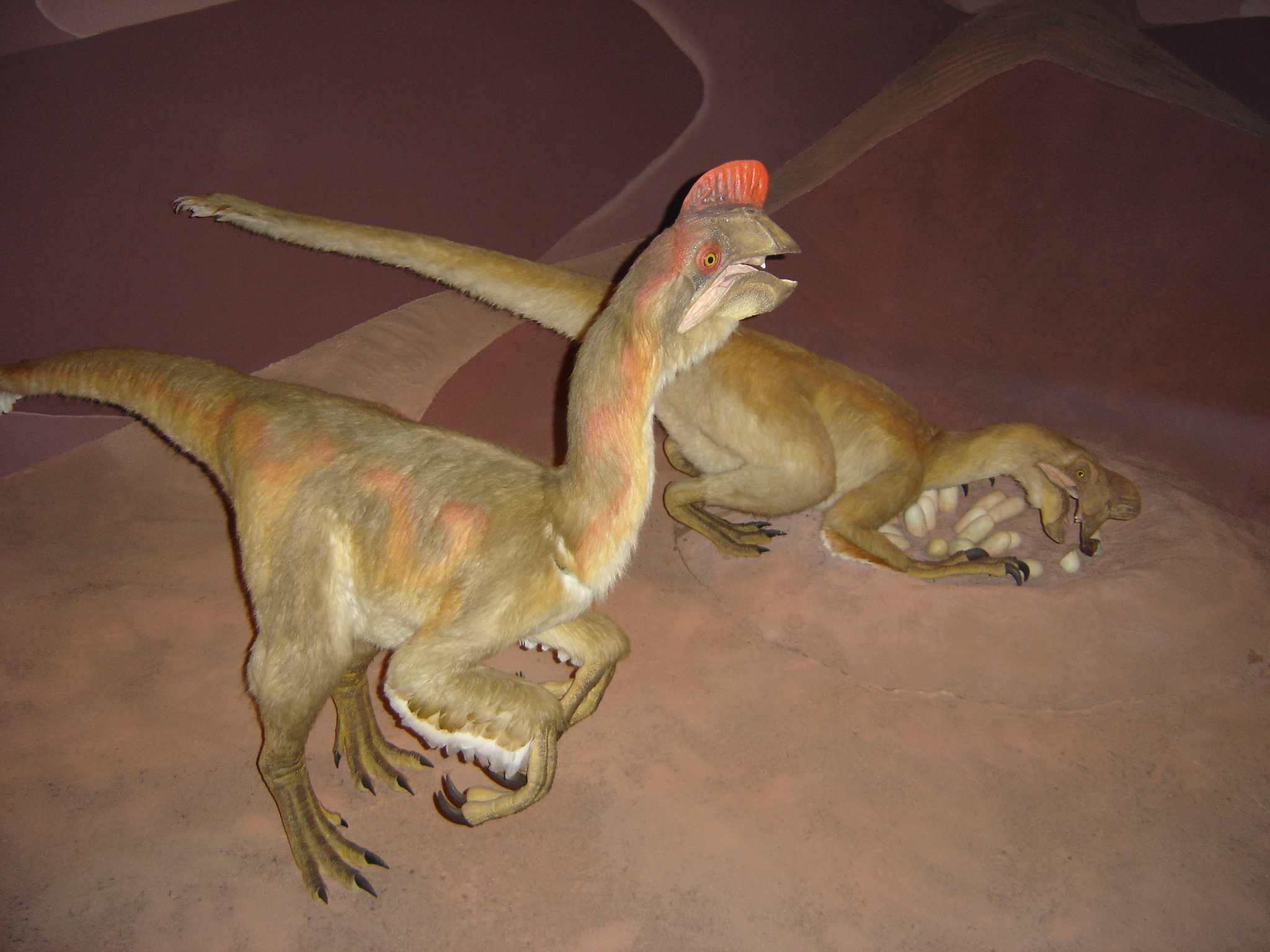 Reproduction of a couple of Oviraptor (based on Citipati) from end of Cretaceous (Natural History Museum of London).